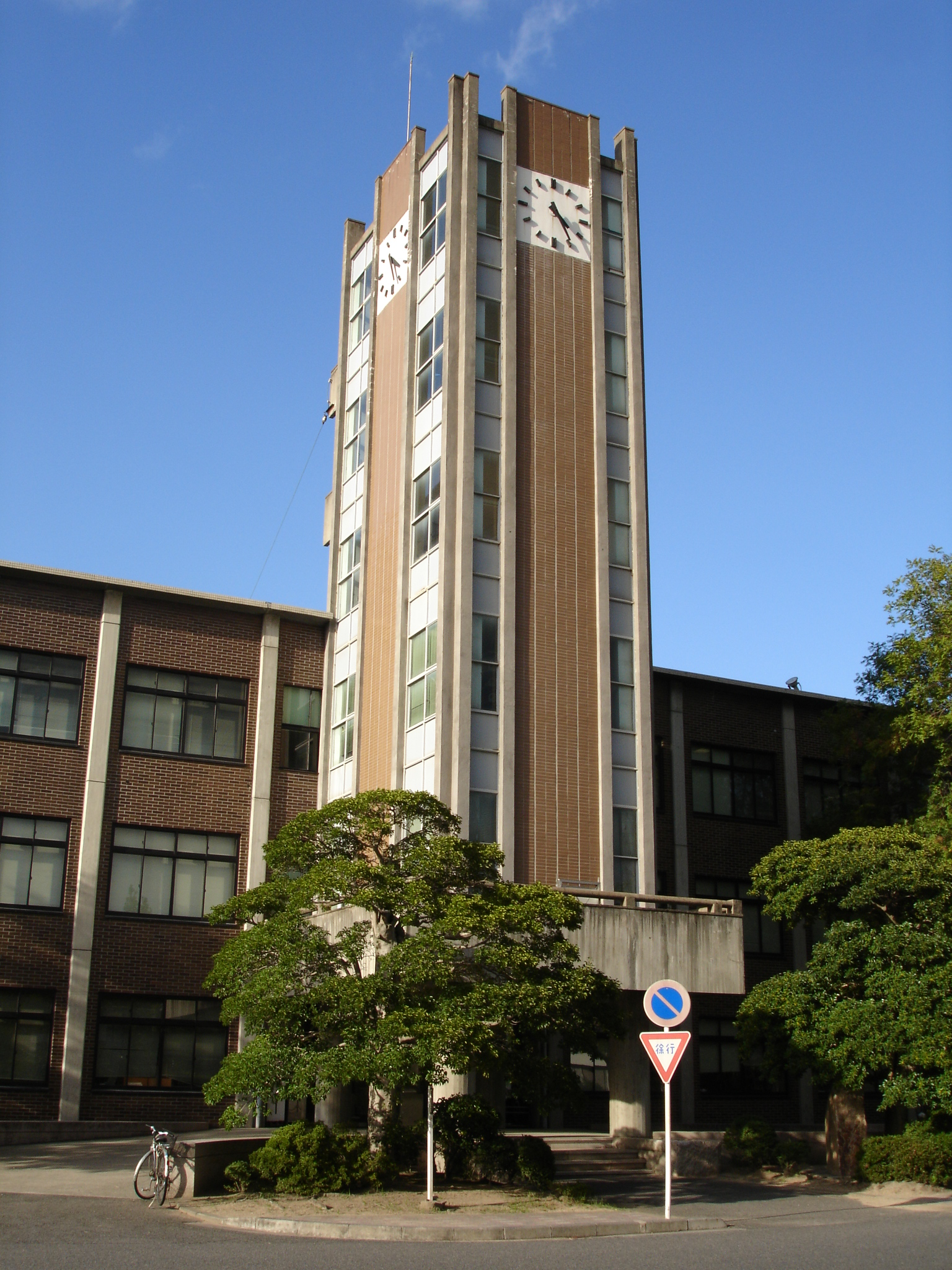 Okayama University, photographed by user:Setouchi